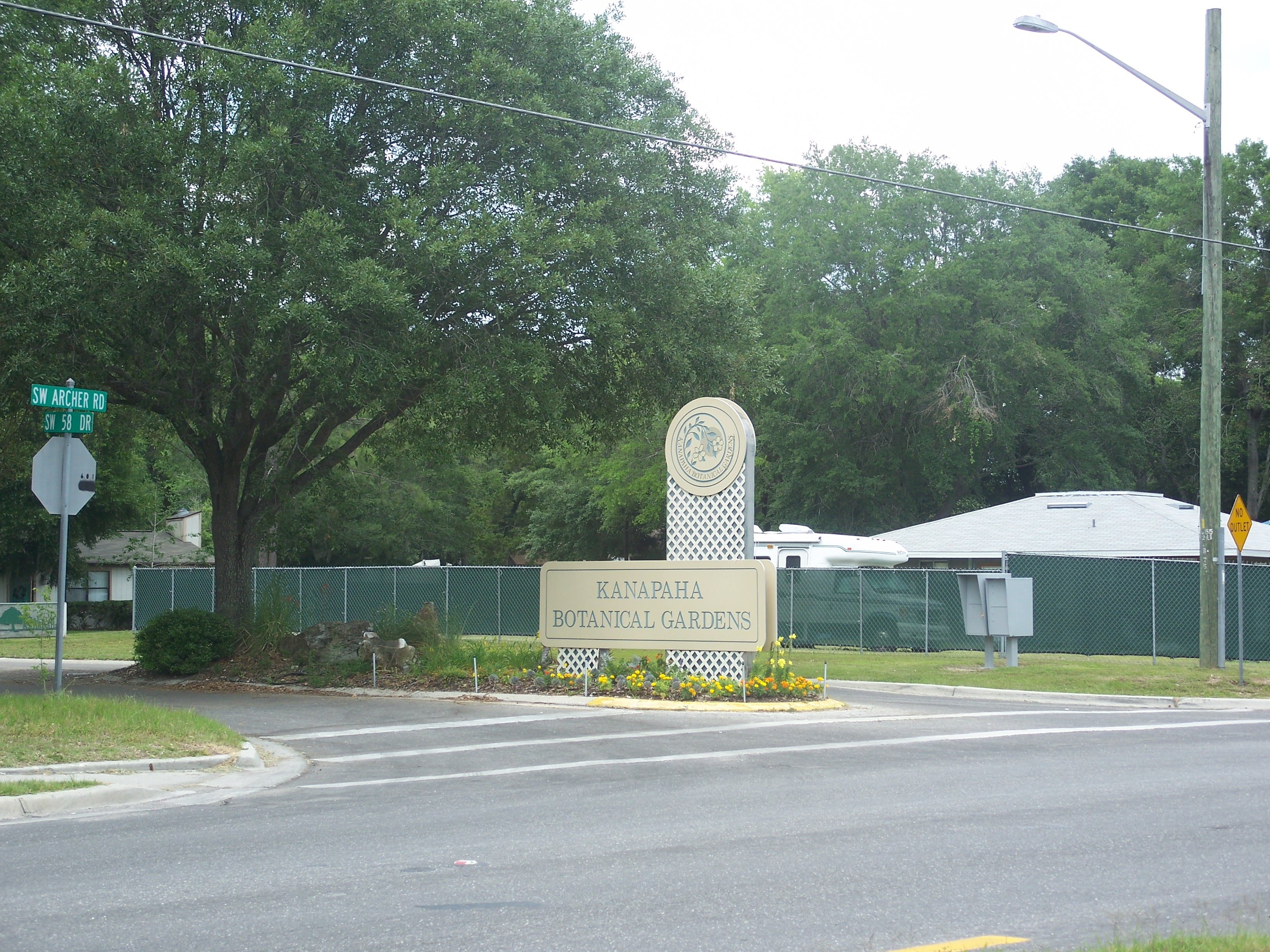 Gainesville, Florida: Kanapaha Botanical Gardens: Sign on Archer Road